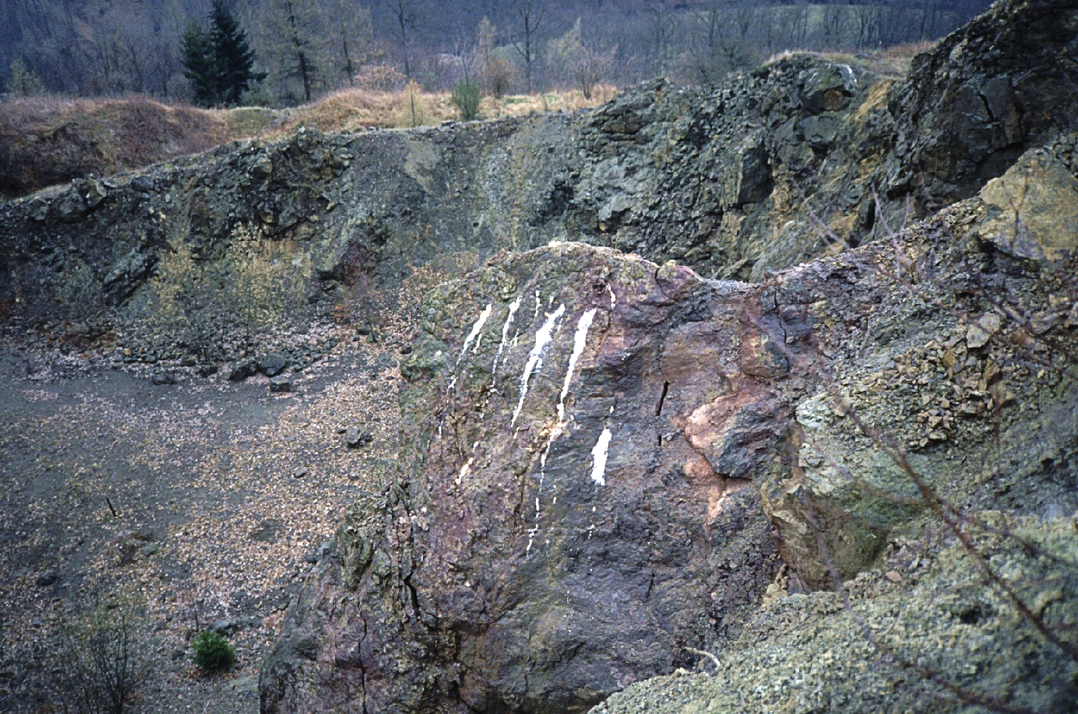 Droppings of an Eagle-owl Bubo bubo female at a nest in Sauerland, Germany